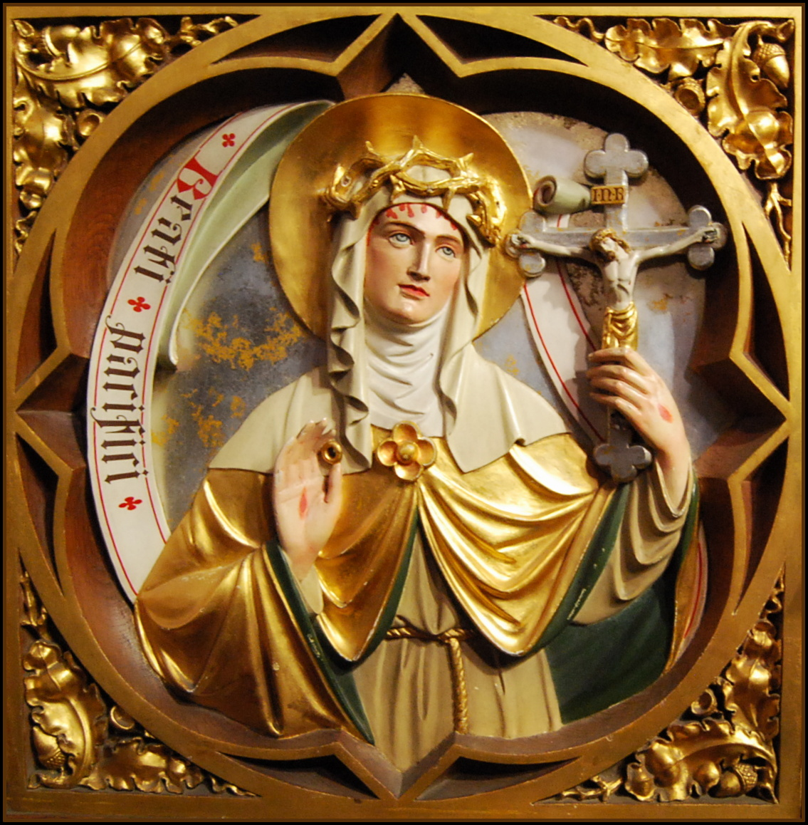 Saint Bonifacius Church Leeuwarden Saint Catherine of Siena